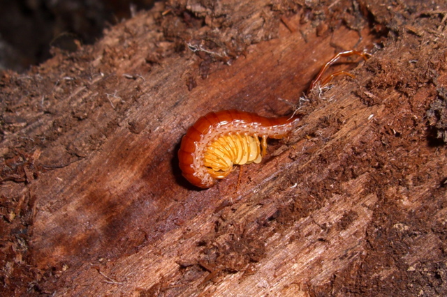 Centipede from northern California, protecting its eggmass.